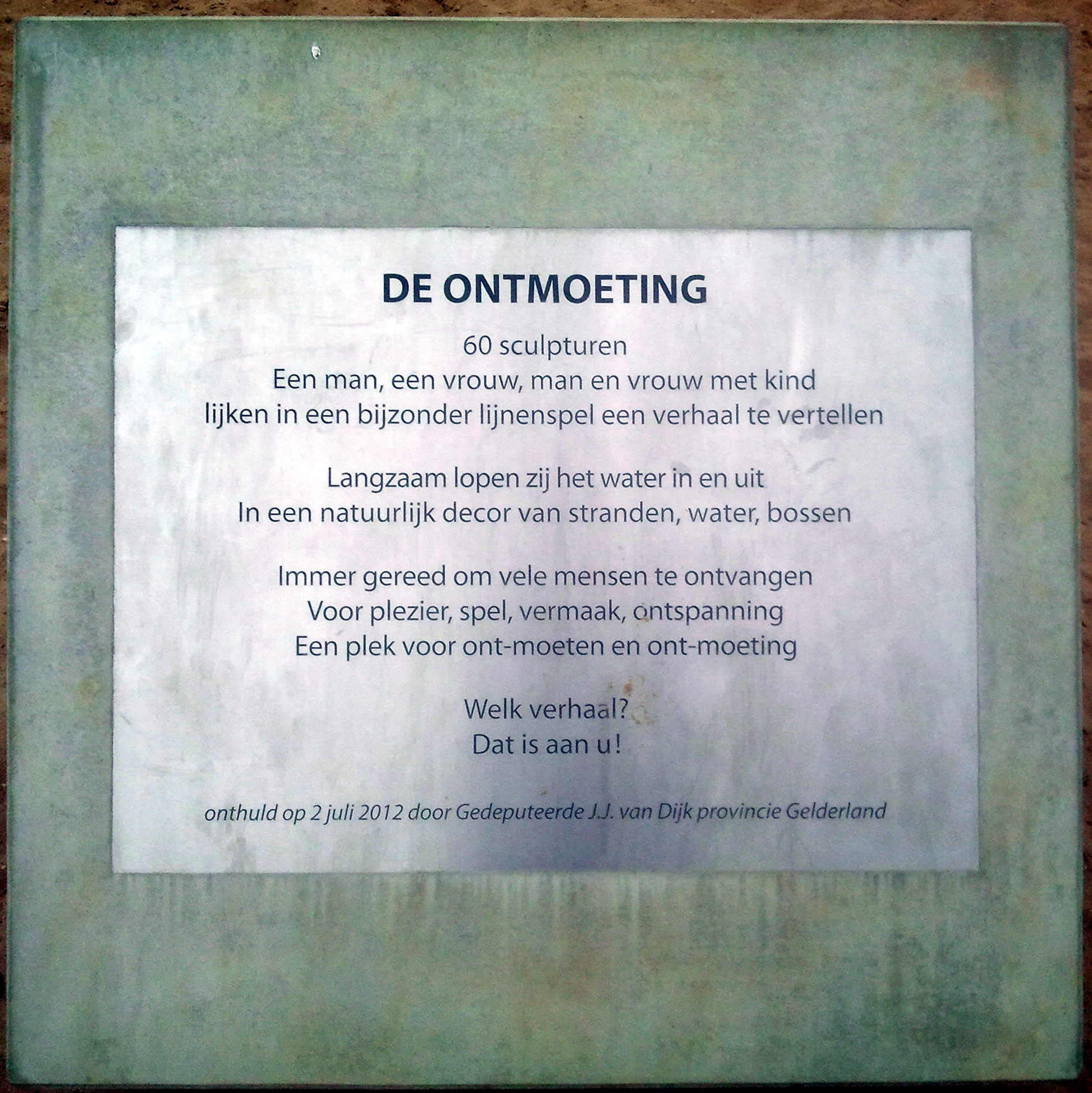 plaquette with statue at Heerderstrand Heerde, the Netherlands